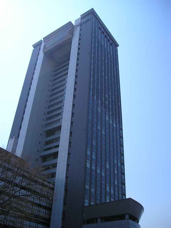 Hosei University, Tokyo, Japan